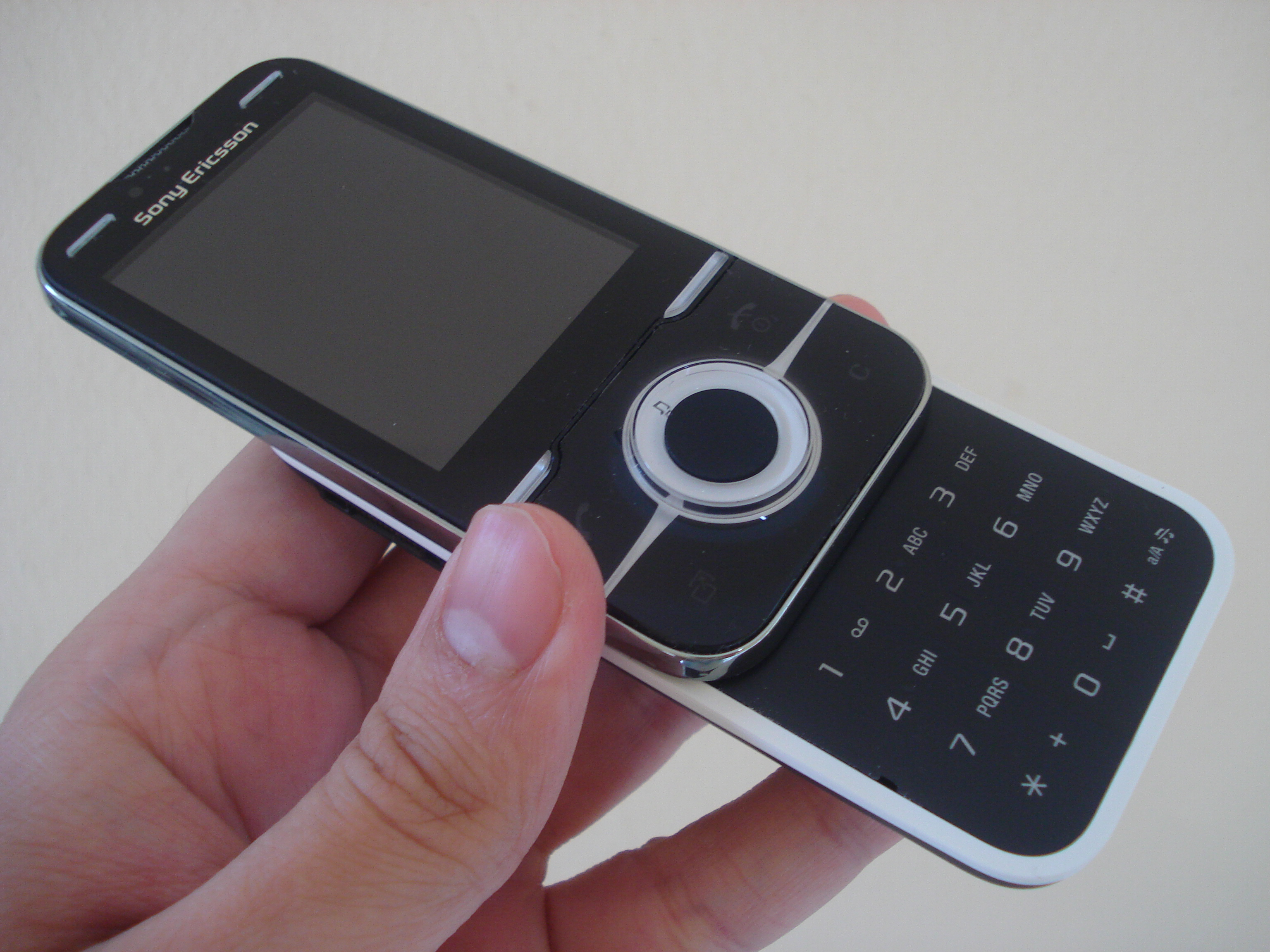 Sony Ericsson™ Yari™ hands on.